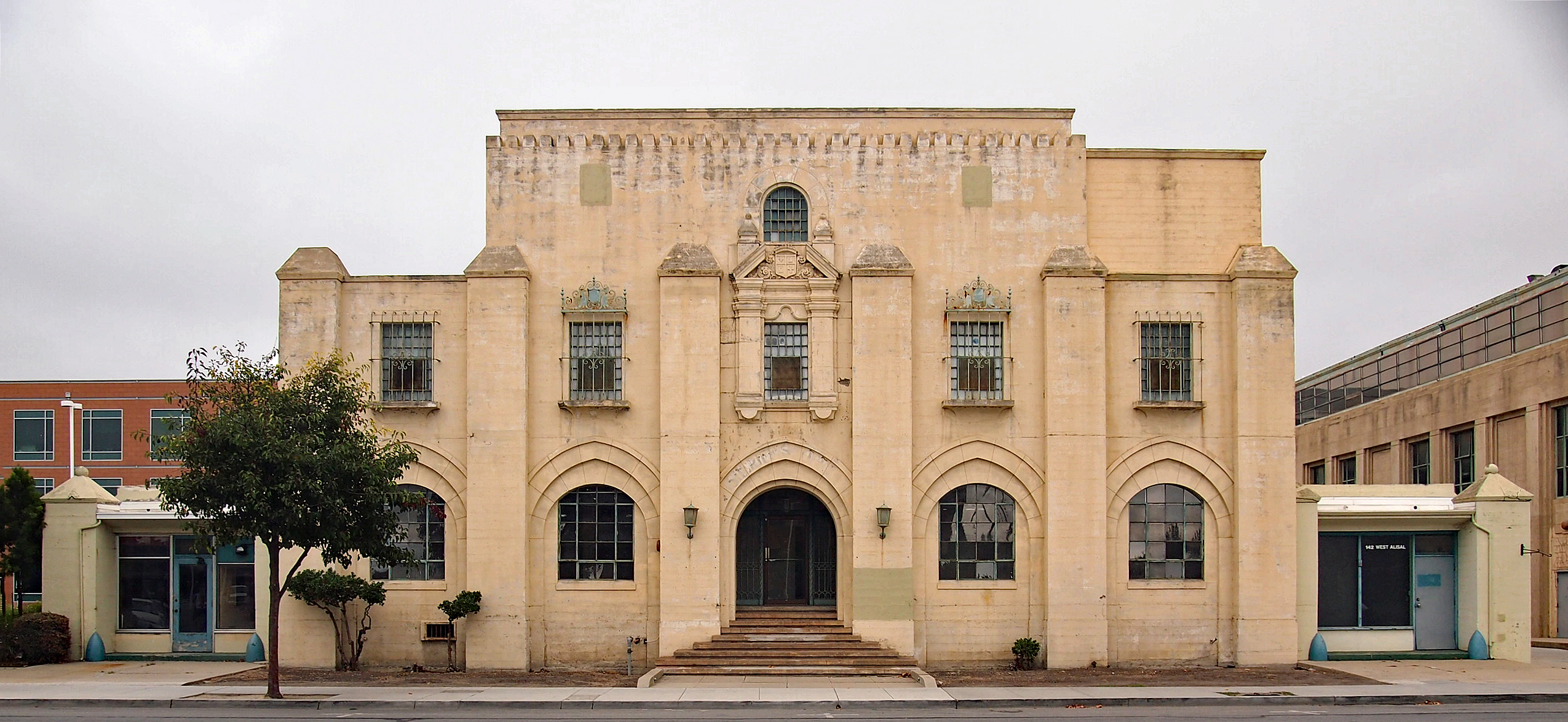 Monterey County Jail, 142 W Alisal St, Salinas, California, USA. Viewed from the south.